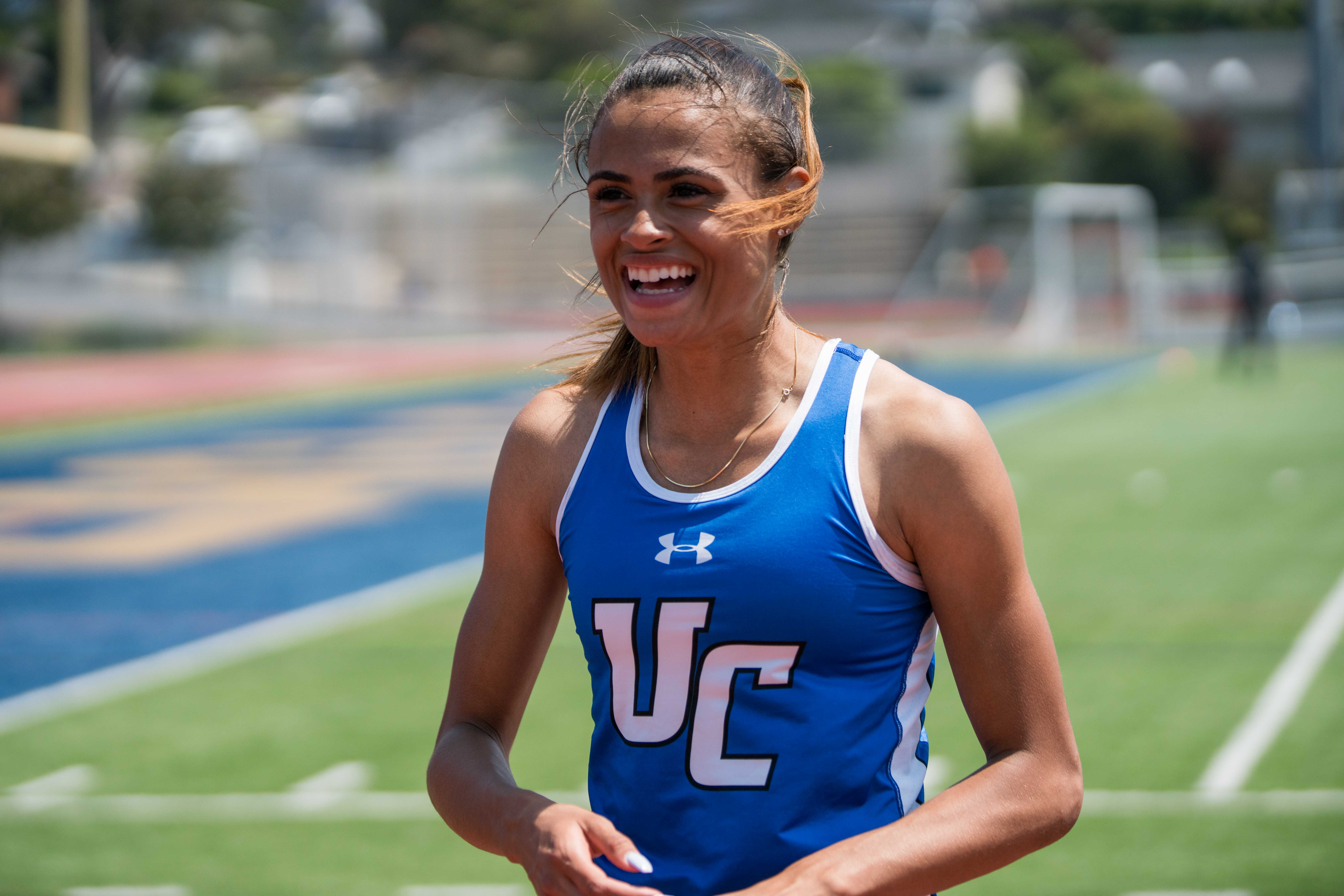 Union Catholic Track & Field